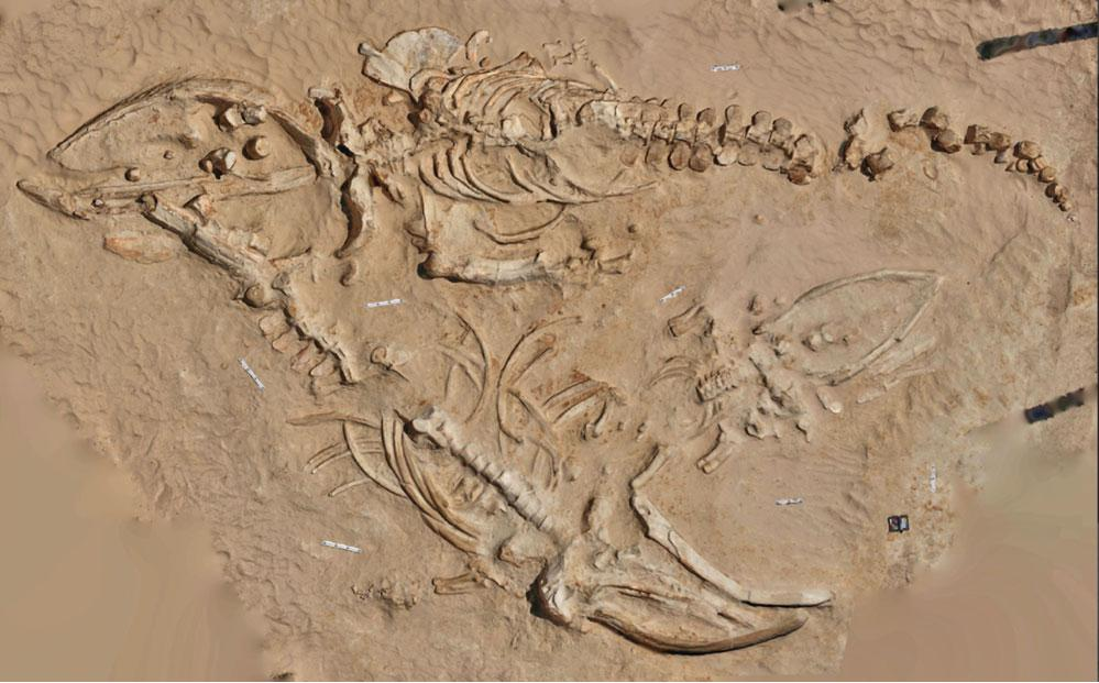 Fossil skeletons of two adults and a juvenile whales from Cerro Ballena Paleontological site, Chile. Pyenson et al. (2014) Proceedings of the Royal Society B, 281(1781): 20133316